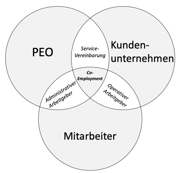 Eine PEO kann mit Kundenunternehmen und Mitarbeitern des Unternehmens ein Verhältnis eingehen, das elementar für die PEO ist und das Alleinstellungsmerkmal zu anderen Arbeitsverhältnissen darstellt.